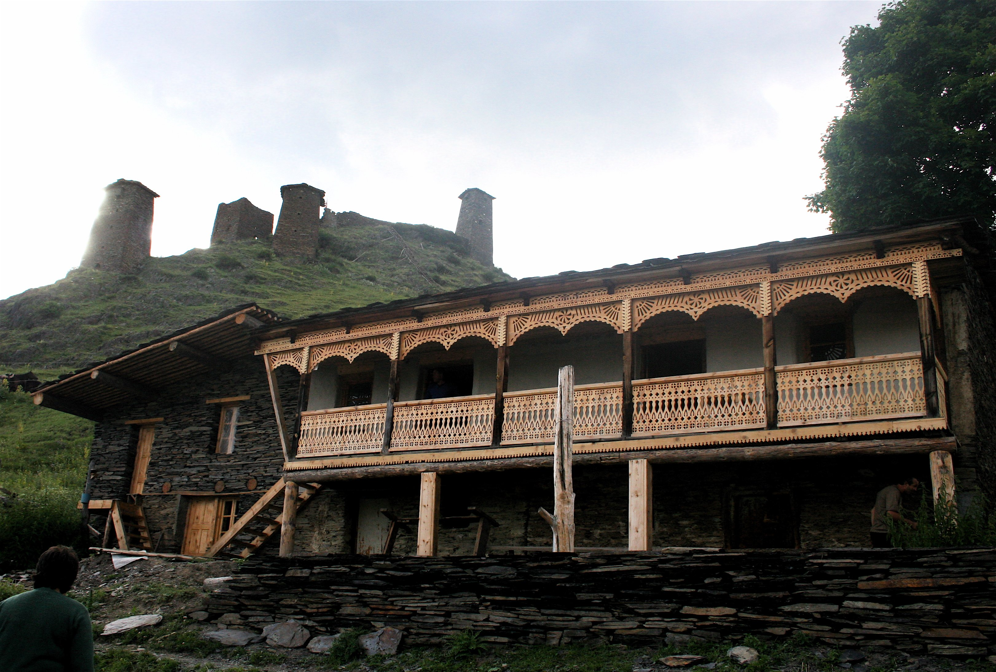 a bed&breakfast hotel, Tusheti, Georgia